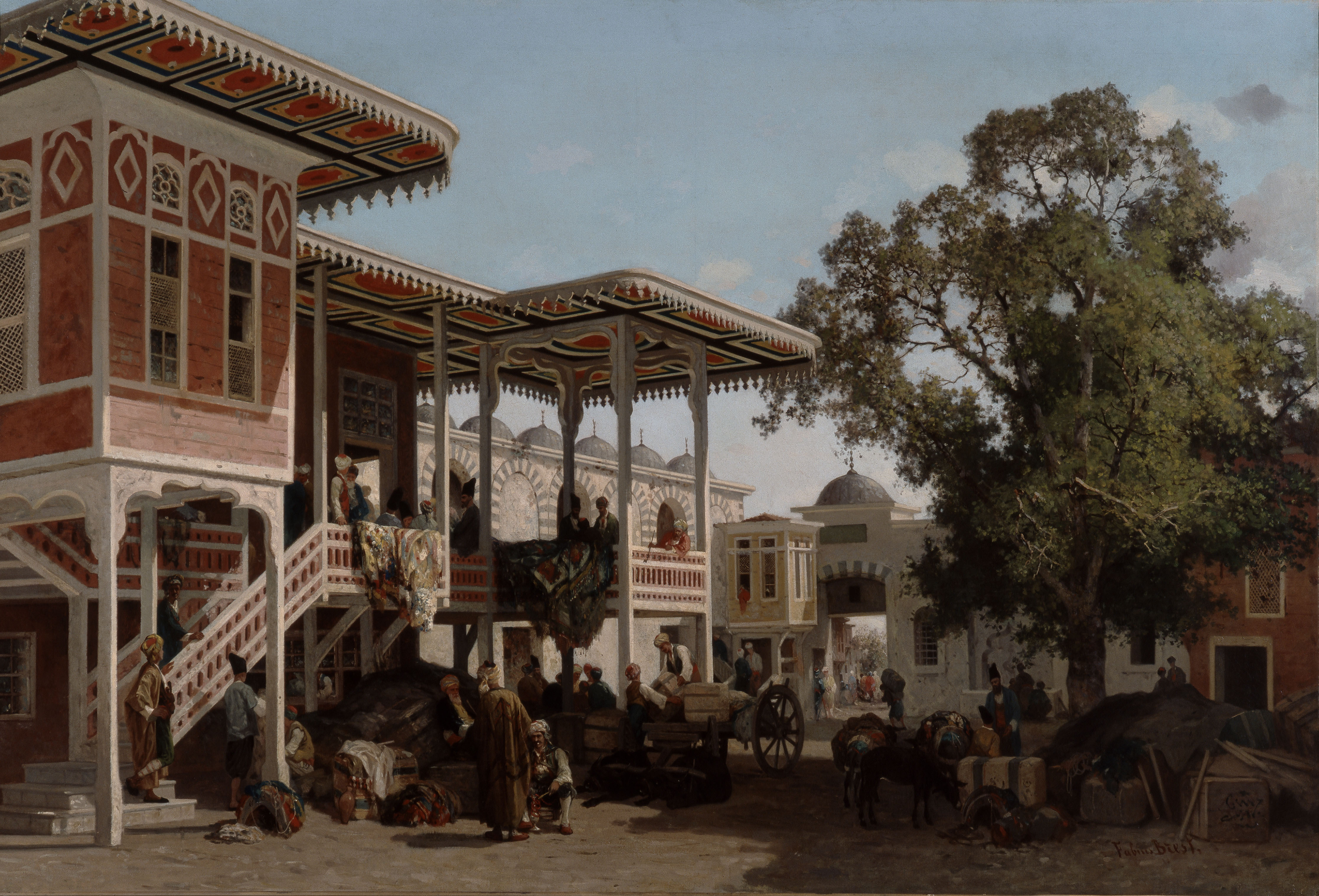 A caravanserai in Trabzon, Turkey